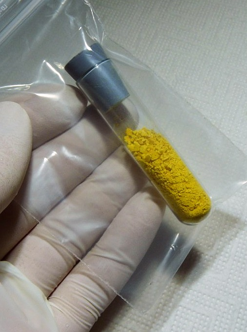 Yellowcake in a test tube